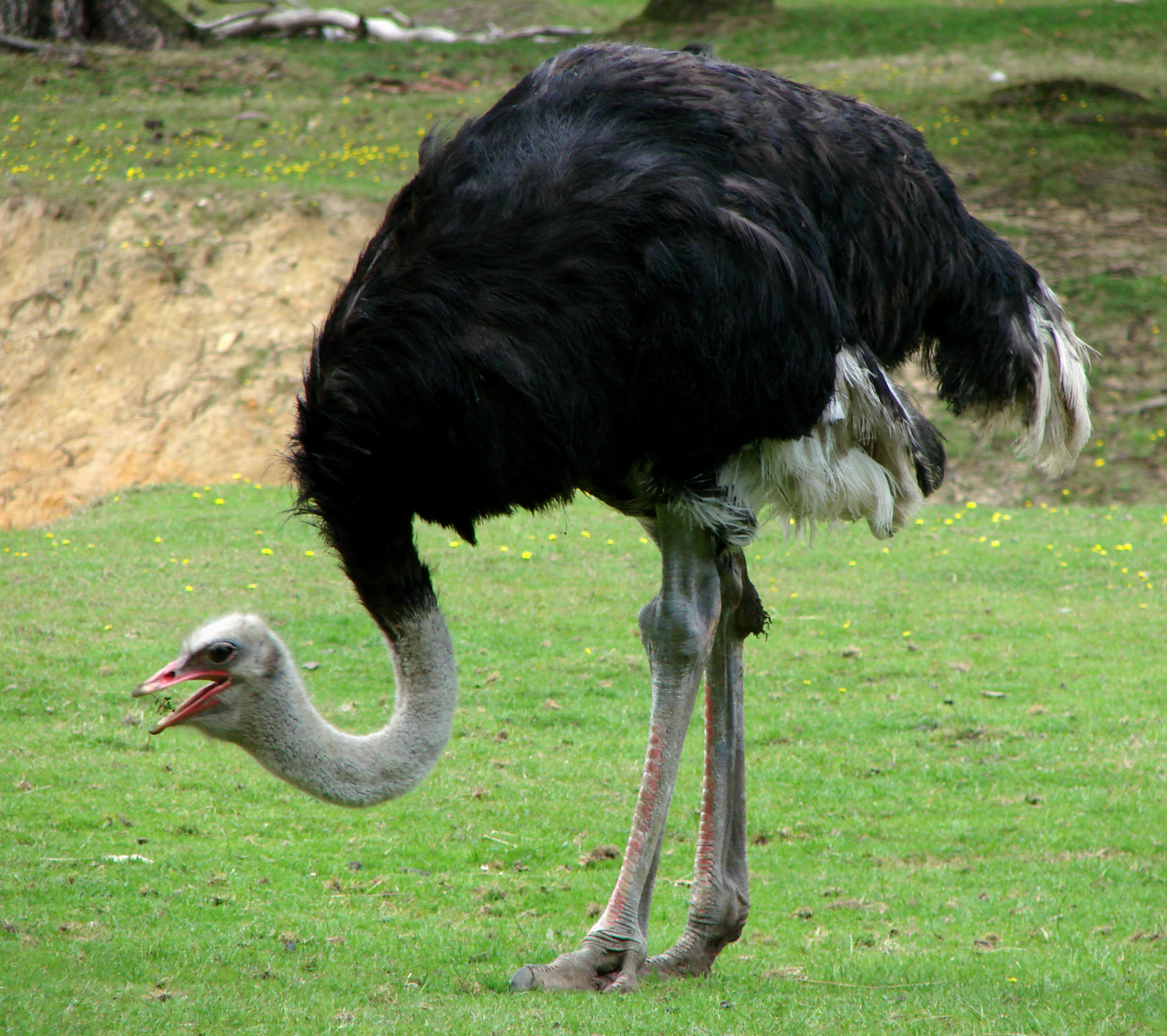 Grazing ostrich (Struthio camelus) in the Thoiry zoo.